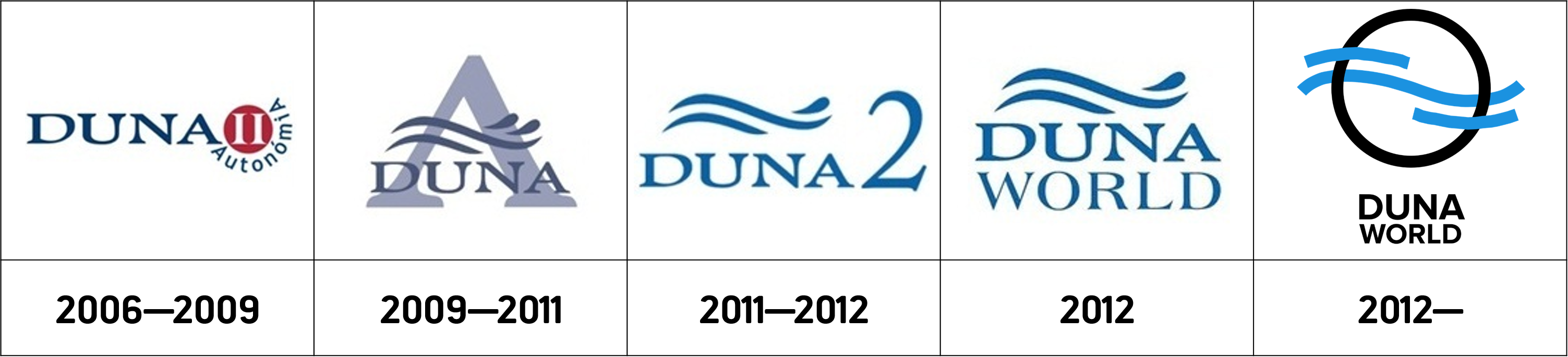 The logos used by Duna World channel, Hungarian public broadcaster since 2006.